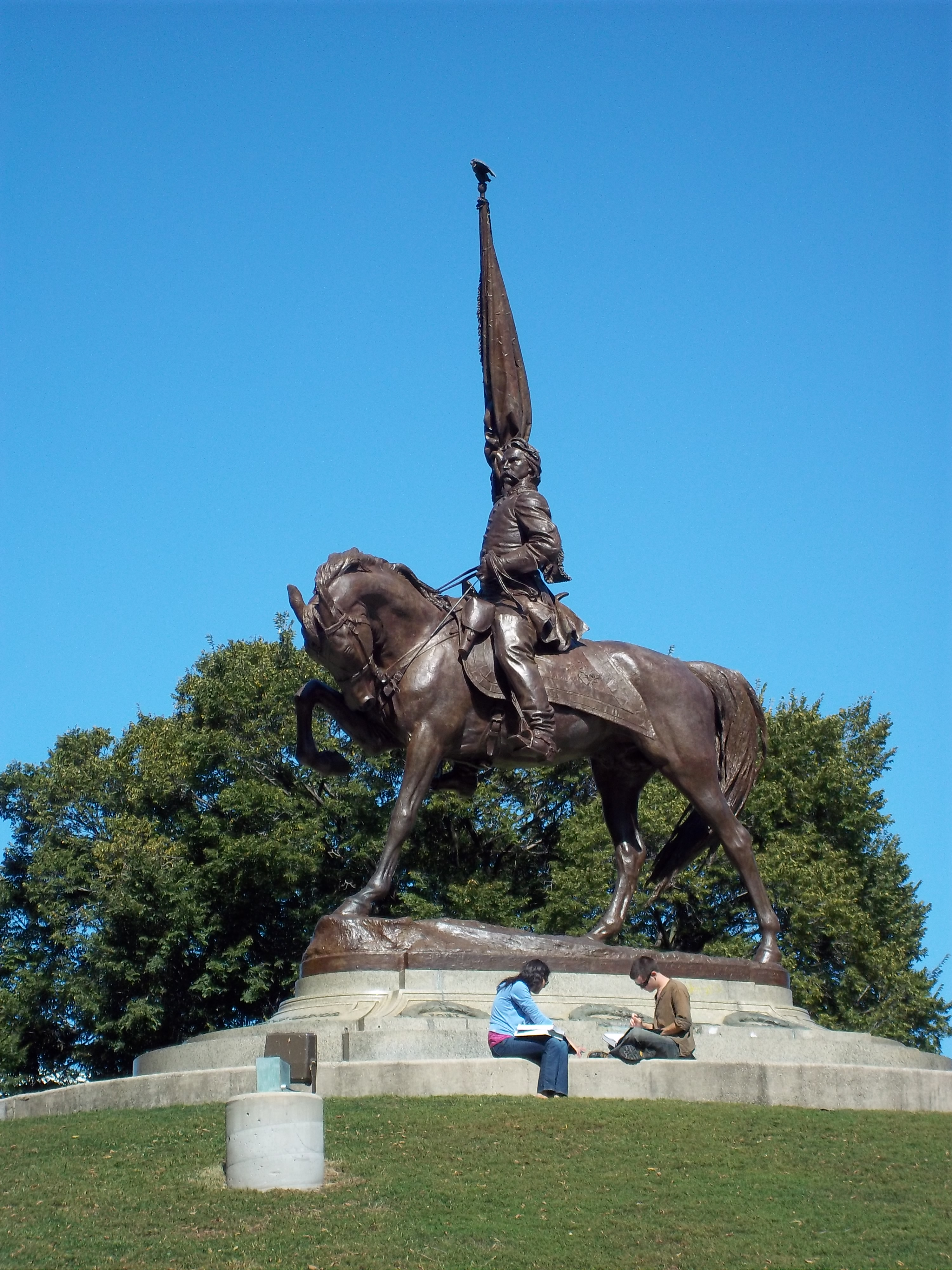 Statue of General John Logan in Grant Park, Chicago by Augustus Saint-Gaudens (d. 1907), dedicated 1897